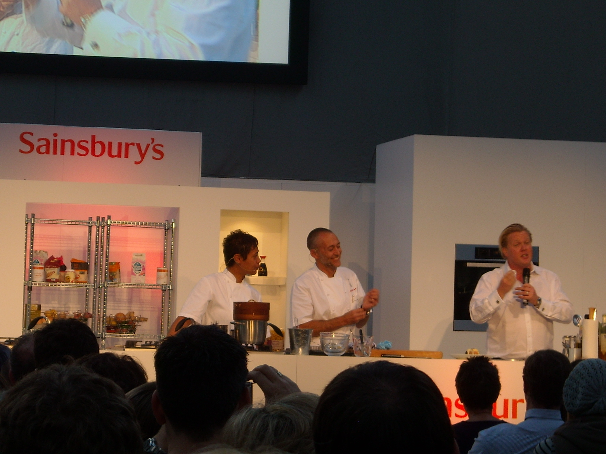 Michel Roux Jr at MasterChef Live 2009 MC Ollie Smith (right) suggesting wines to go with the artichoke dish created by Chef Michel Roux Jr with more than a little help from Monica Galetti.